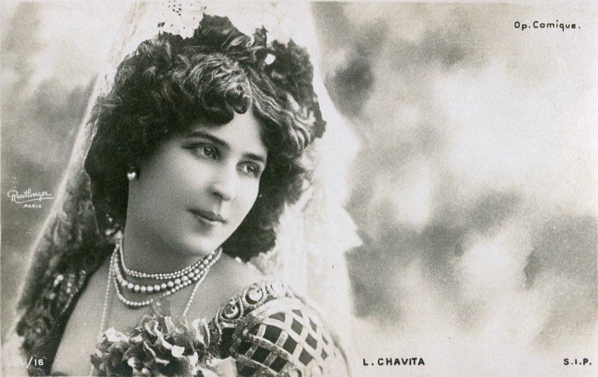 Luz Chavita.